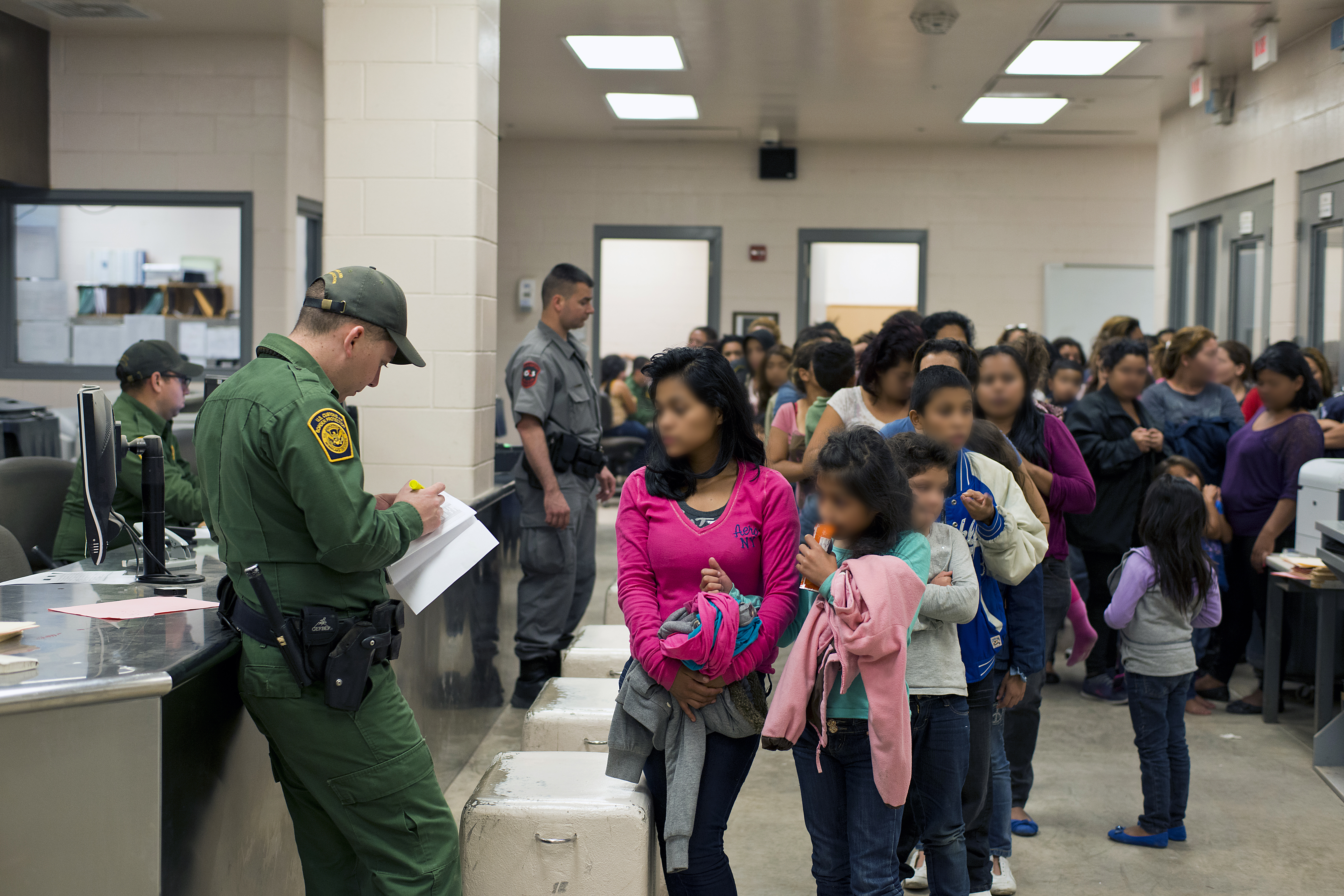 South Texas Border - U.S. Customs and Border Protection provide assistance to unaccompanied alien children after they have crossed the border into the United States. Photo provided by: Hector Silva